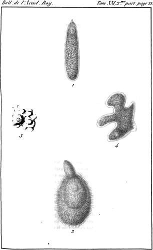 Bulletins de l'Académie royale des sciences et belles-lettres ..., Volumes 21-22 Par Académie royale des sciences et belles-lettres de Bruxelles page 22